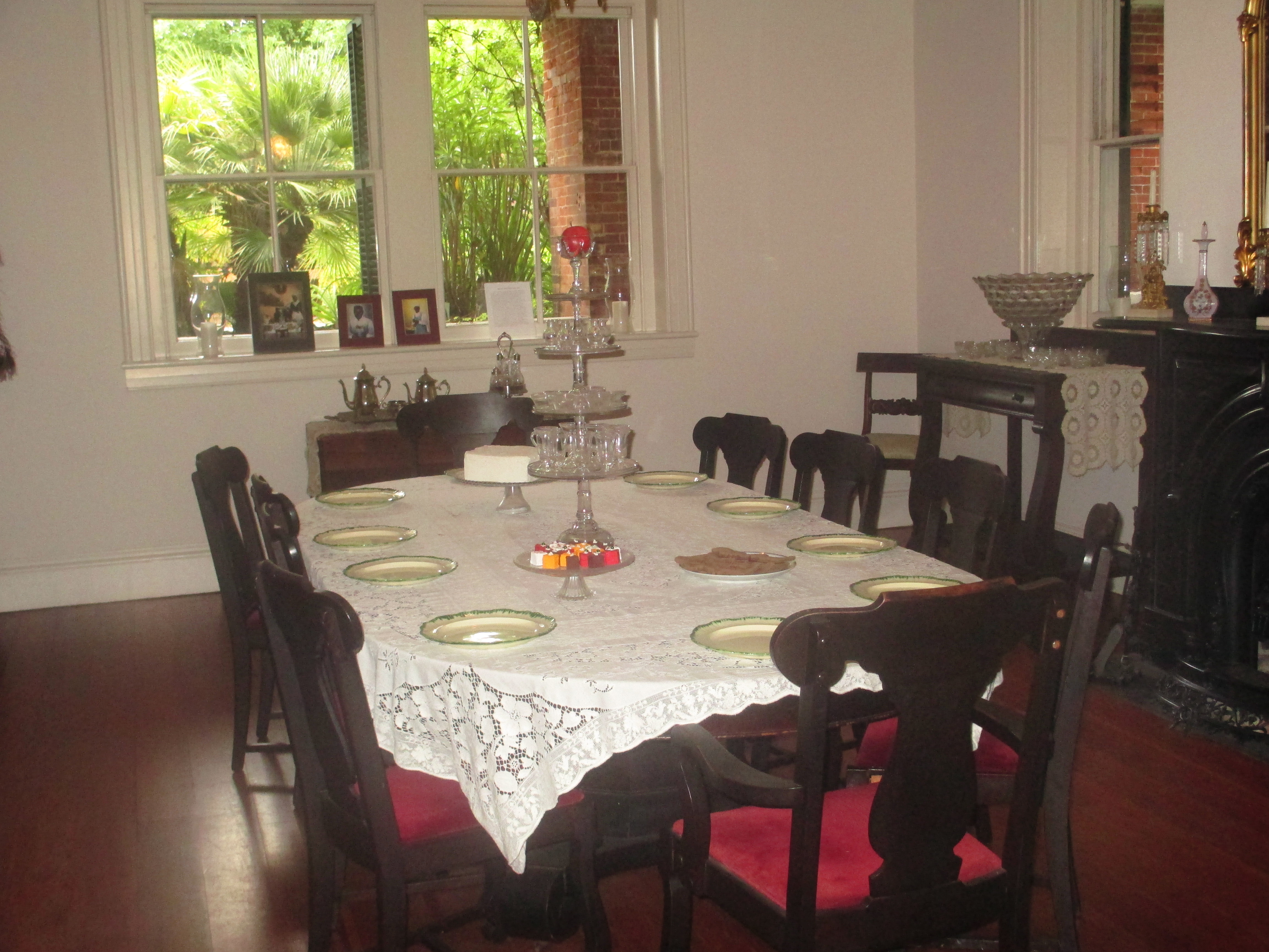 I took photo with Canon camera at Bellamy Mansion in Wilmington, NC.